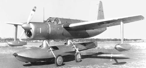 Vought XSO2U-1 scout-observation aircraft prototype on floats with ground handling gear.